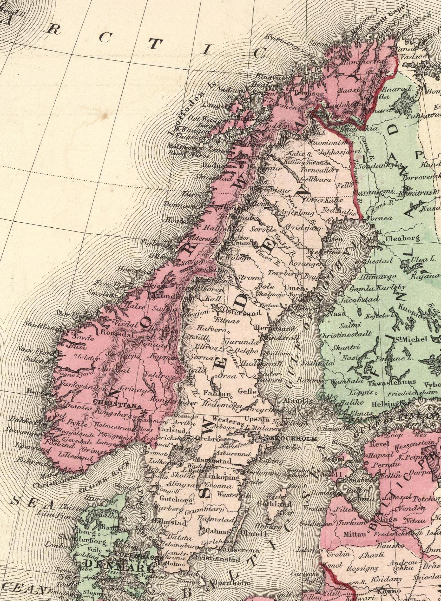 Johnson's Europe Published By Johnson And Ward. Pub Title: Johnson's New Illustrated (Steel Plate) Family Atlas, With Physical Geography, And With Descriptions Geographical, Statistical, And Historical ... By Richard Swainson Fisher, M.D. ... Maps Compiled, Drawn, And Engraved Under The Supervision Of J.H. Colton And A.J. Johnson. New York: Johnson And Ward, Successors To Johnson And Browning (Successors To J.H. Colton And Company,) No. 113 Fulton Street. 1865. Entered ... One Thousand Eight Hundred and Sixty-four, by A.J. Johnson ... New York. Note: In full color. Shows, among others, the Russian states of Little Russia, West Russia, South Russia, Kasan, and Astrachan. Relief shown by hachures. Meridians Greenwich and Washington D.C.